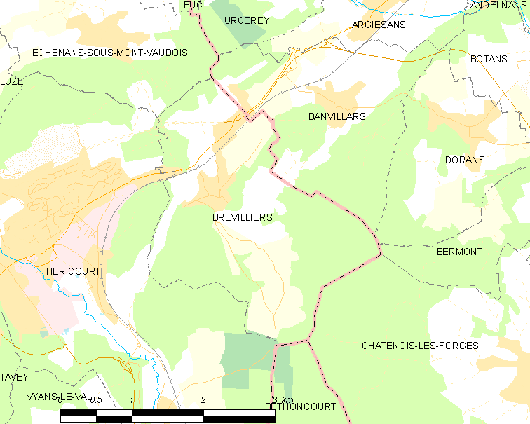 Map of French municipality